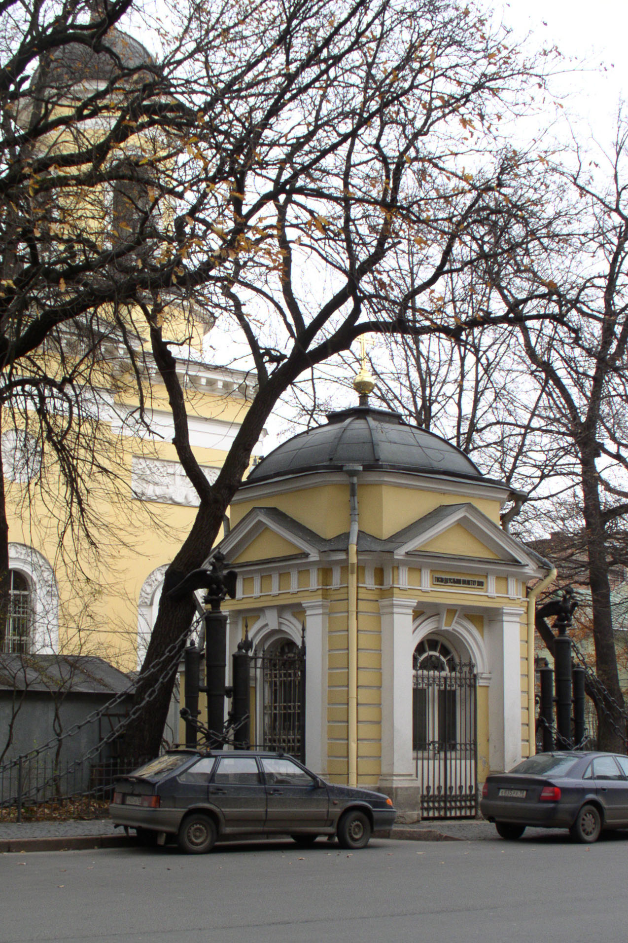 The fence chapel of the Transfiguration Cathedral in Saint Petersburg. October 31, 2006.